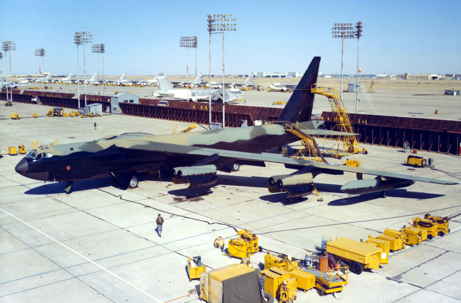 Boeing B-52D-55-BO (S/N 55-0068). Note the B-52Hs in the background. (U.S. Air Force photo)